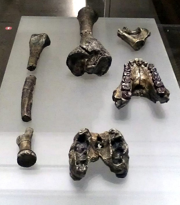 Replicas at Museo de Ciencias Naturales de Madrid: Maxilla - KNM-KP-29283 Mandible - KNM-KP-29281 Right Proximal Tibia - KNM-KP-29285A Right Distal Tibia - KNM-KP-29285B Left Distal Humerus - KNM-KP-271 Left Distal Radius - KNM-ER-20419 Left Center Radius - KNM-ER-20419 Left Proximal Radius - KNM-ER-20419